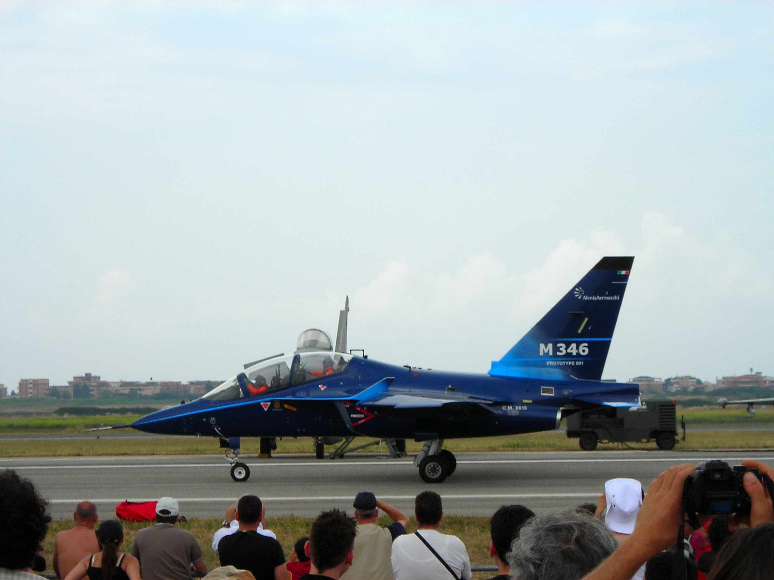 Picture taken during "Giornata Azzurra" 2007 (Italian Air Force airshow) at Pratica di Mare AFB, Italy. Aermacchi M-346 prototype 001